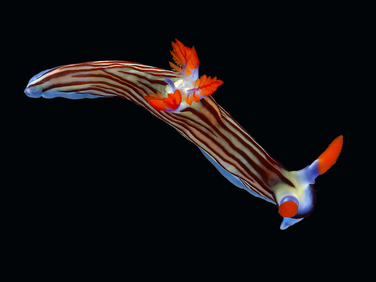 The nudibranch Nembrotha aurea; Kinondo, Diani, Kenya, 18m; 5 November 2012.